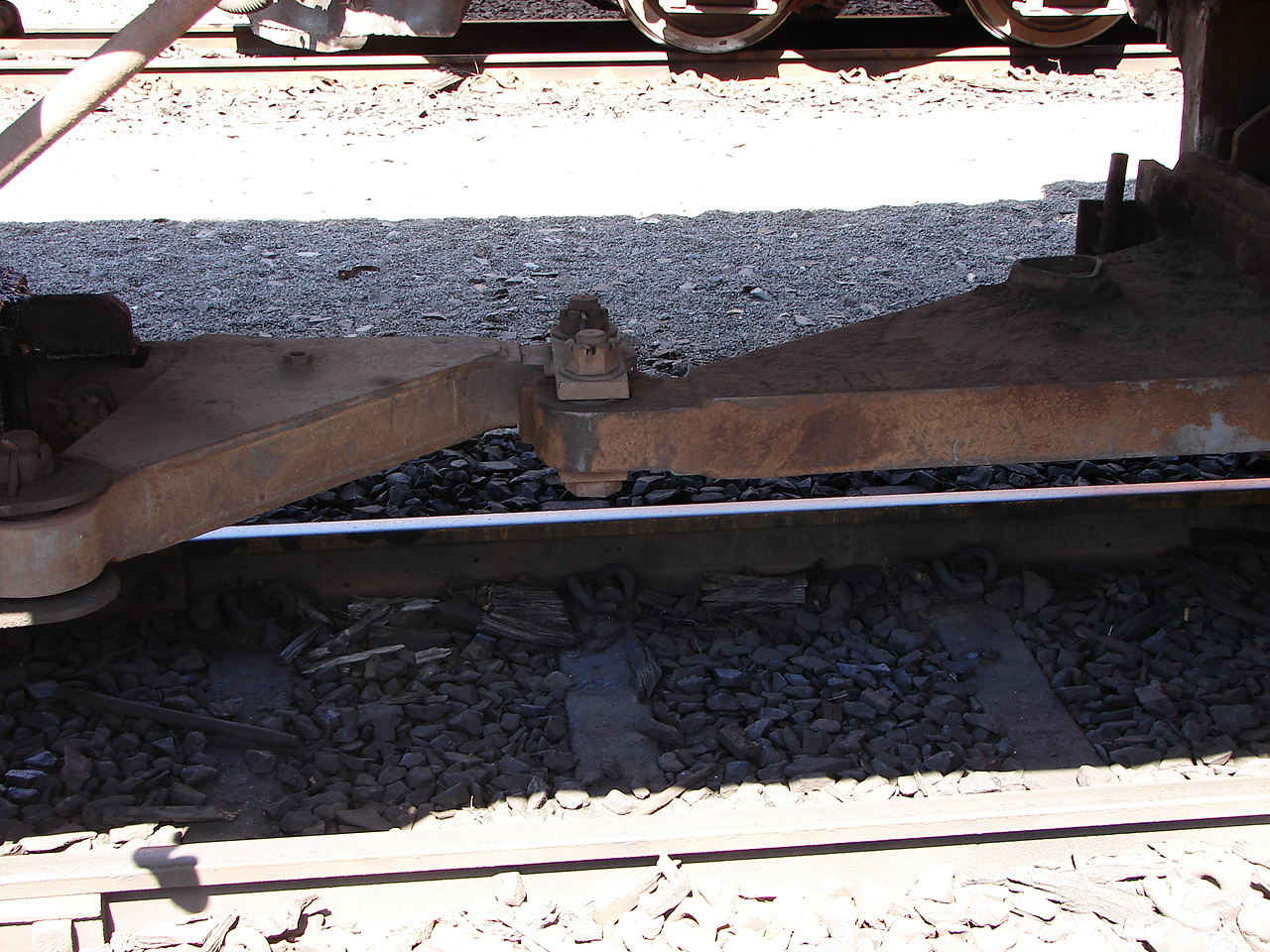 With the fuel tank removed on 35-066, the inter-bogie linkage of the Co+Co Class 35-000 is visibleBuilder's Number: GE 38739Type: GE U15CLocation: Bellville Loco, Cape Town, Western Cape